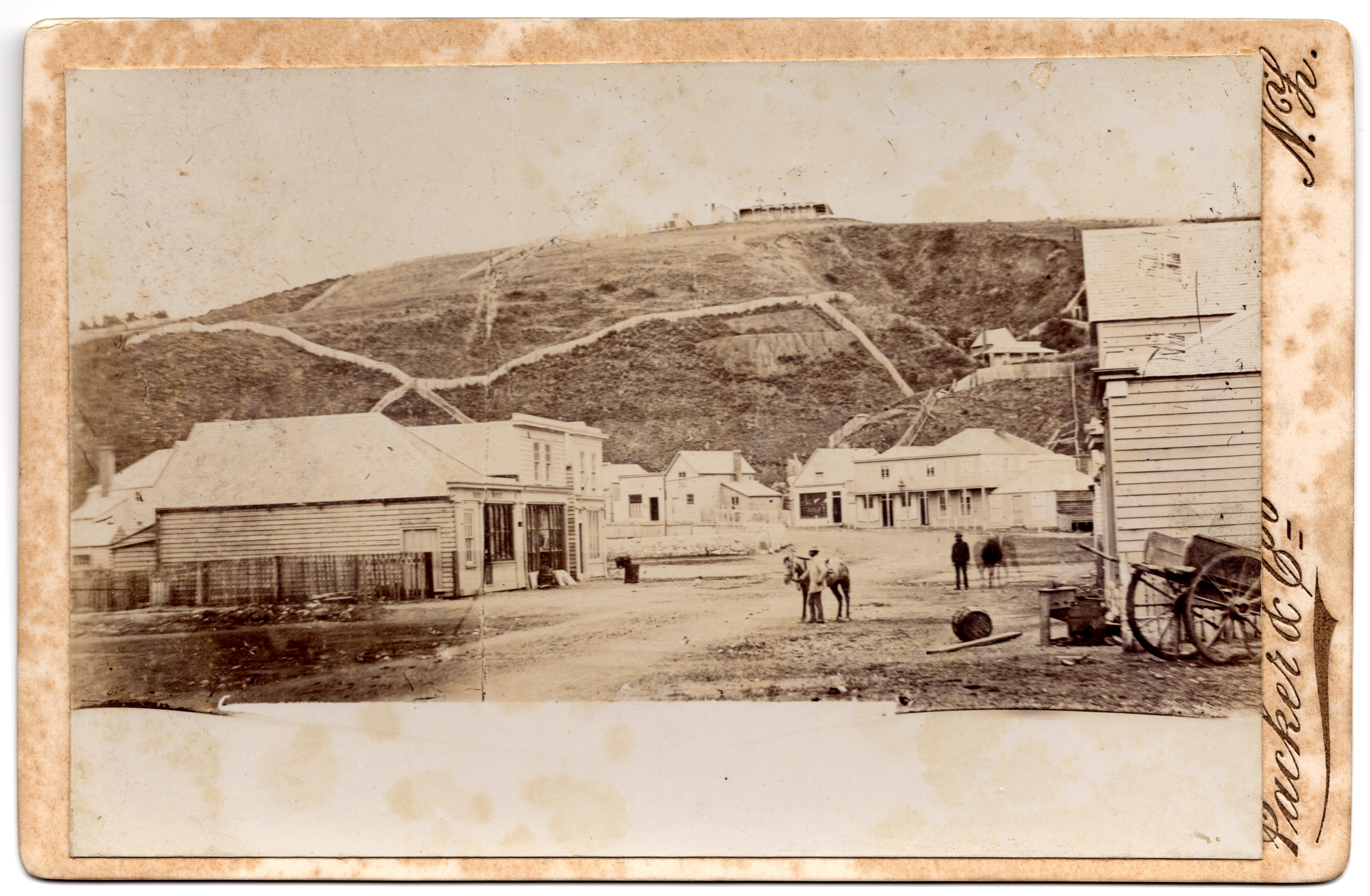 Hasting Street Napier 1862